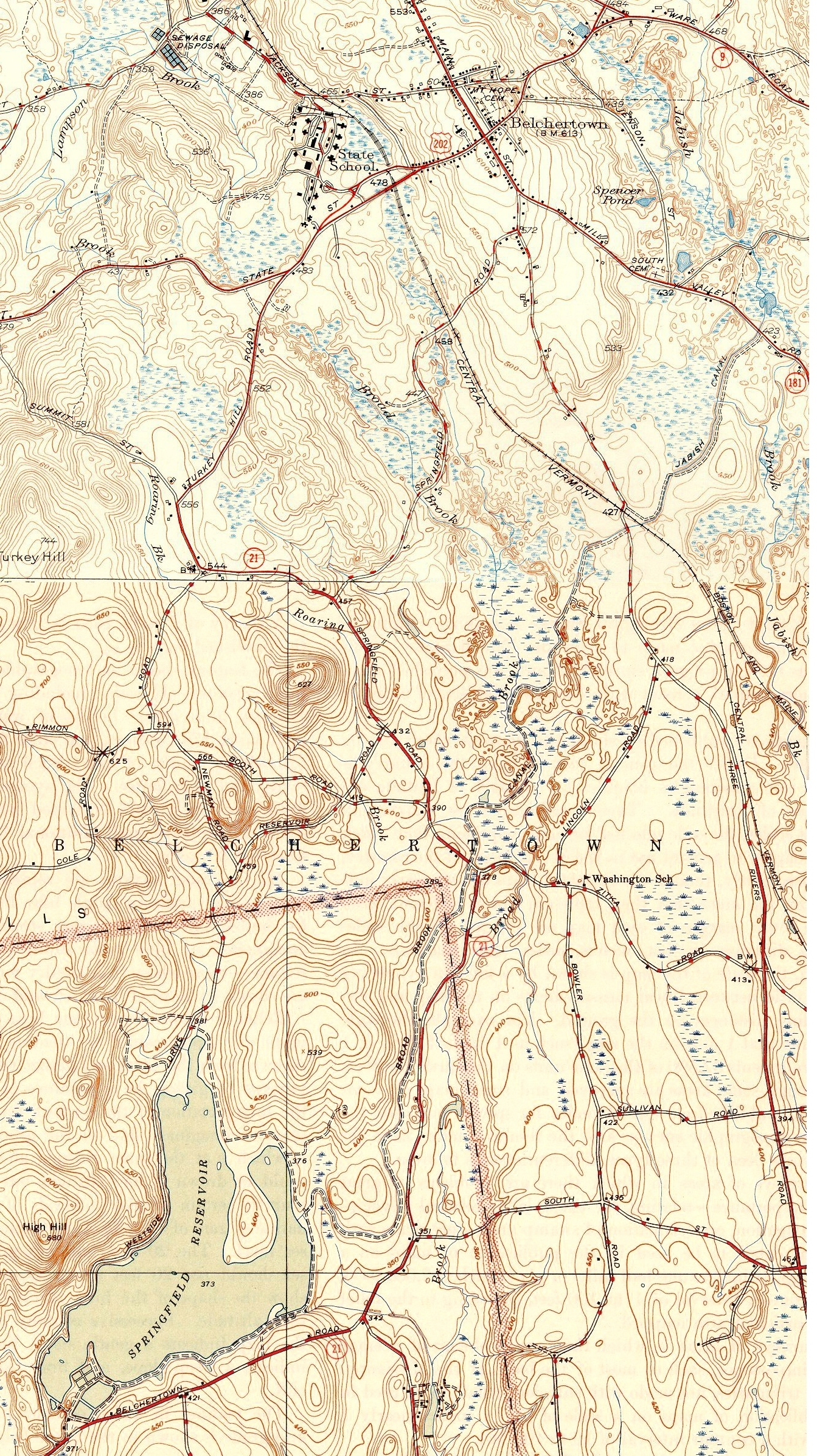 Map of Broad Brook Canal in Ludlow and Belchertown, Massachusetts, USA. Note that its upper segment is also called the Jabish Canal.